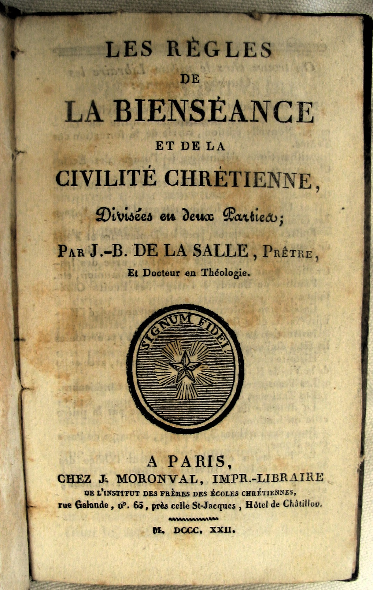 Title page of “Les règles de la bienséance et de la civilité chrétienne” by J. B. de la Salle, printed in 1822